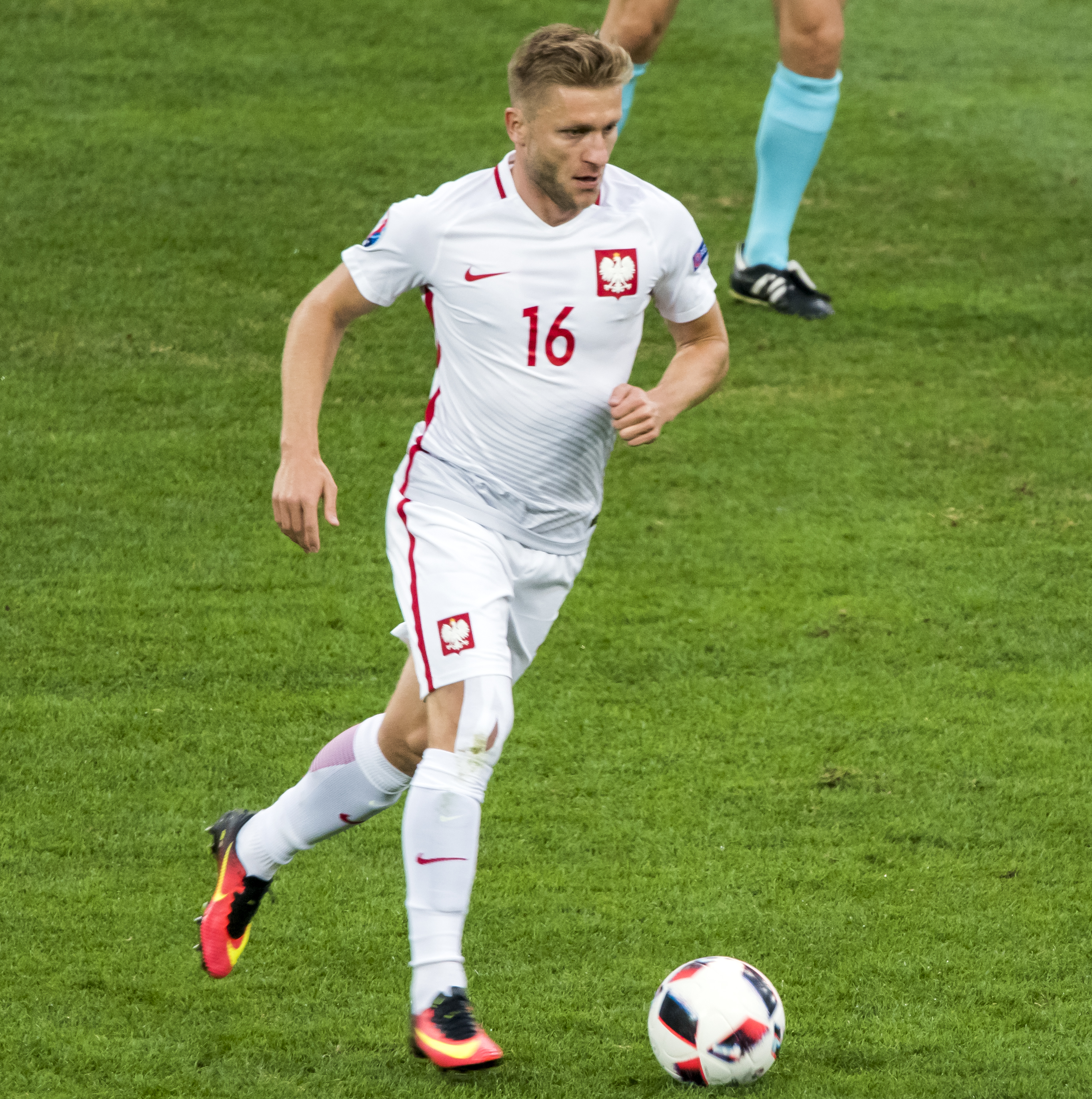 Jakub Błaszczykowski playing for Poland against Portugal at UEFA Euro 2016